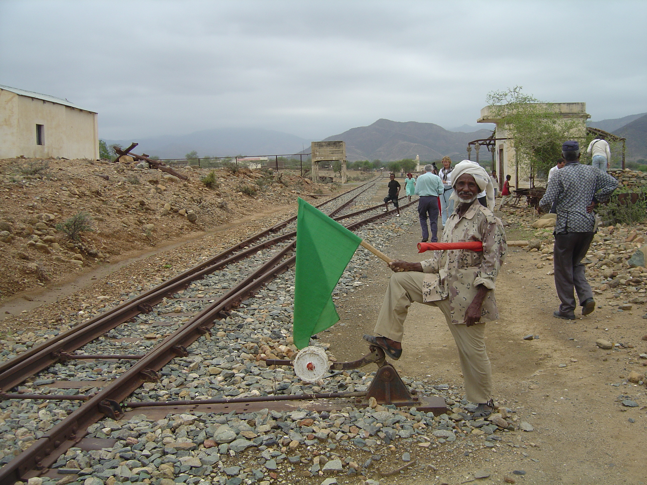 Damas railway station, Eritrean Railway